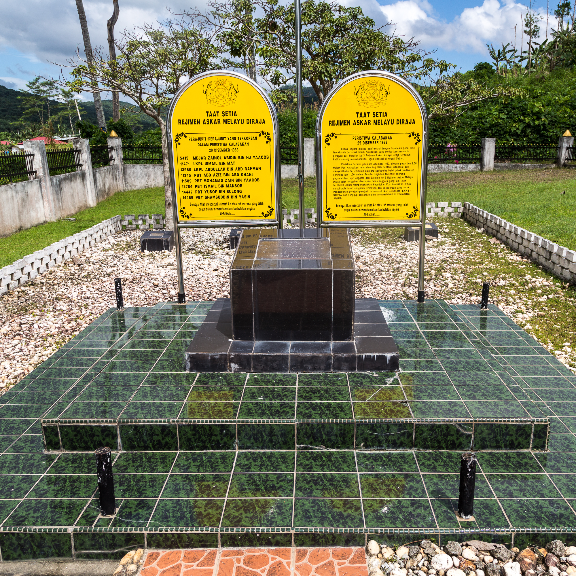 Kalabakan, Sabah: The Konfrontasi Memorial or Tugu Peringatan Kalabakan commemorates the seven soldiers and their commander who died December 29 1963 when intruders from Indonesia attacked their camp. This monument was erected by the government of Malaysia during the tenure of the 2nd Prime Minister of Malaysia, Tun Hj Abdul Razak but was refurbished and reconstructed in 2005 by the support of Kalabakan Member of Parliament and the execution of the 3rd Bn Royal Malay Battalion. Officers whom dedicated their effort to the resurrection of the 'Tugu Kalabakan' was Lt Col Ahmad Sham bin Baharin (CO), Maj Ramli bin Sukardi, Capt Hizdir Abu Zabil, Capt Khairun Anwar bin Mat Isa, Capt Faizal Azizan, Kapt Mohd Fuad Nazri (Planner), Capt (QM) Rusmi, Lt M Jumali and the Assault Pioneer Platoon.